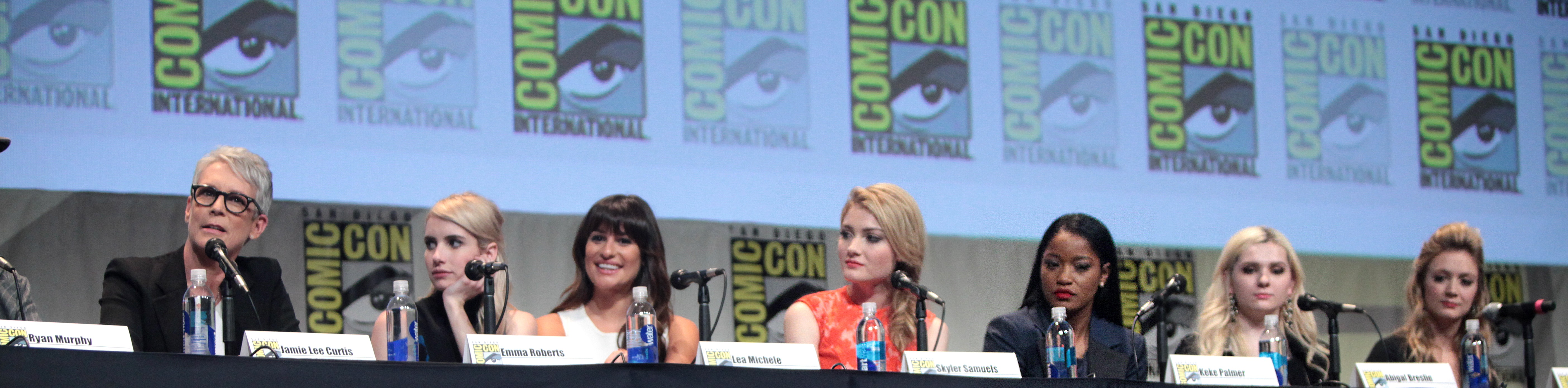 Scream Queens 2015 cast by Gage Skidmore